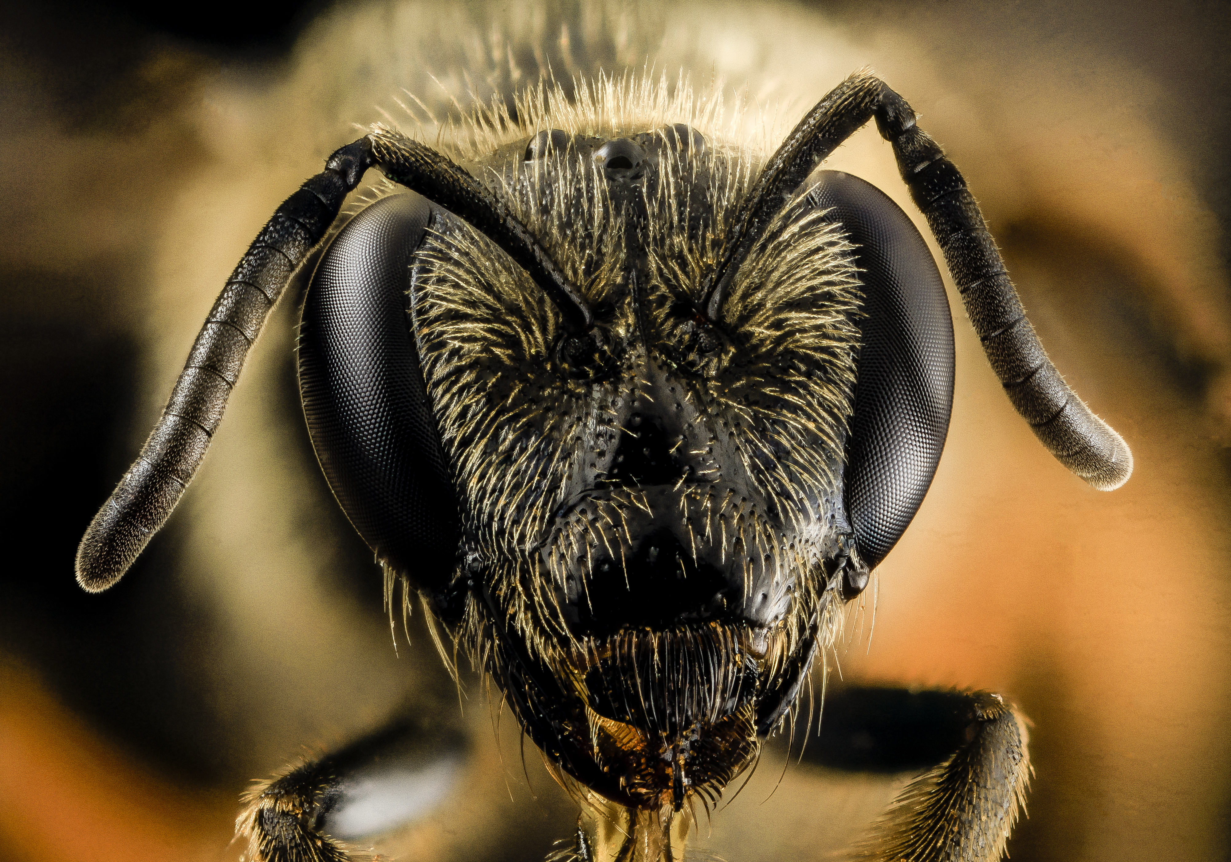 One of the large Lasioglossum sensu strictu...all black or dark with no metallic sheens. This one captured in my backyard on blooming leadplant.